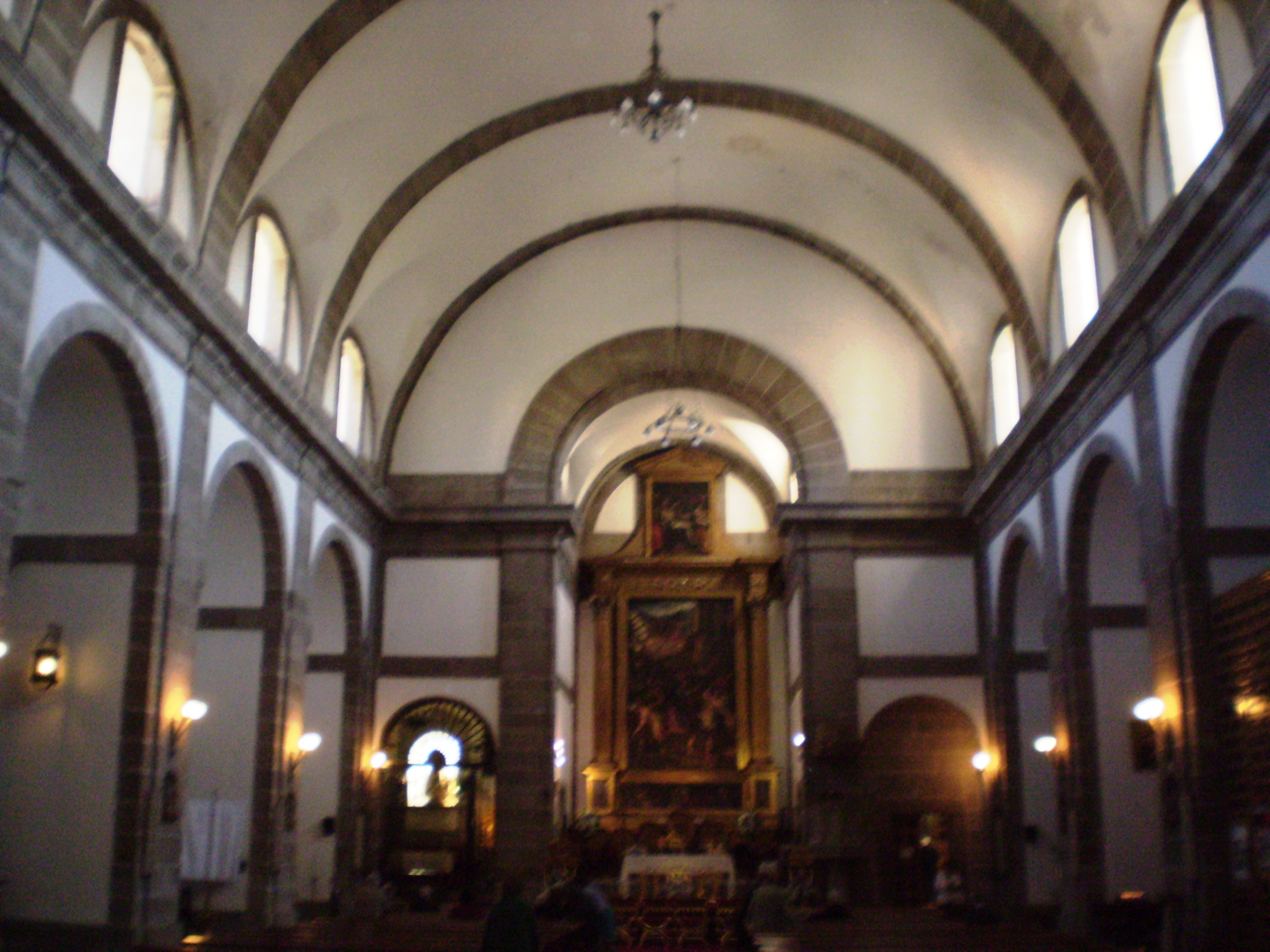 San Bernabé Church. El Escorial. Community of Madrid, Spain